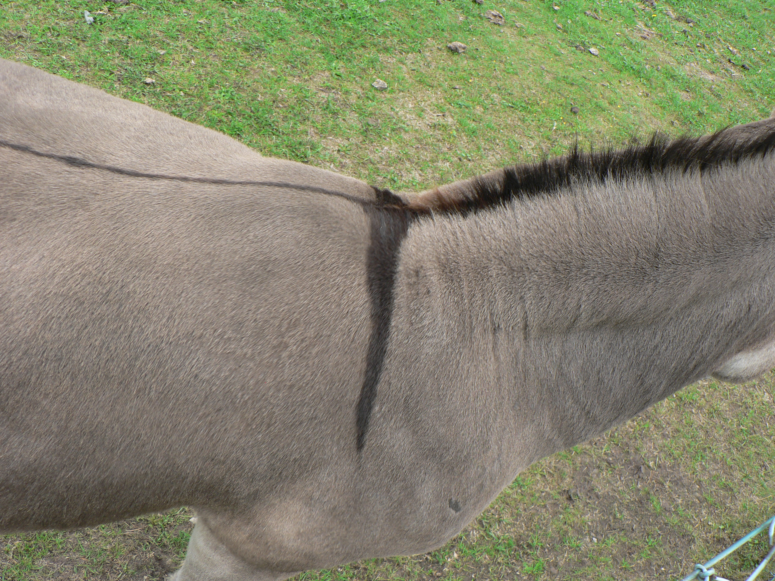 dorsal stripe